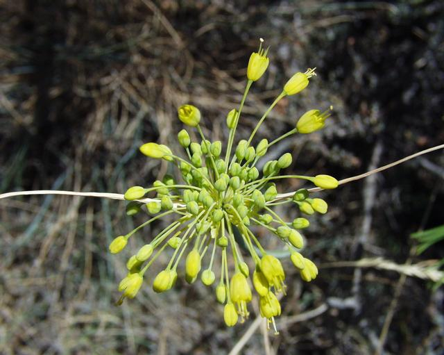 (en) Allium flavum, a photography originating of the internet site The accord of the autor, H. Brisse, is here. (fr) Allium flavum, une photographie issue du site internet L'accord de l'auteur, H. Brisse, se situe ici.